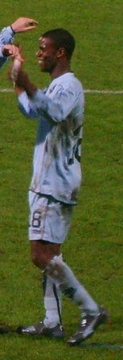 Bedi Buval